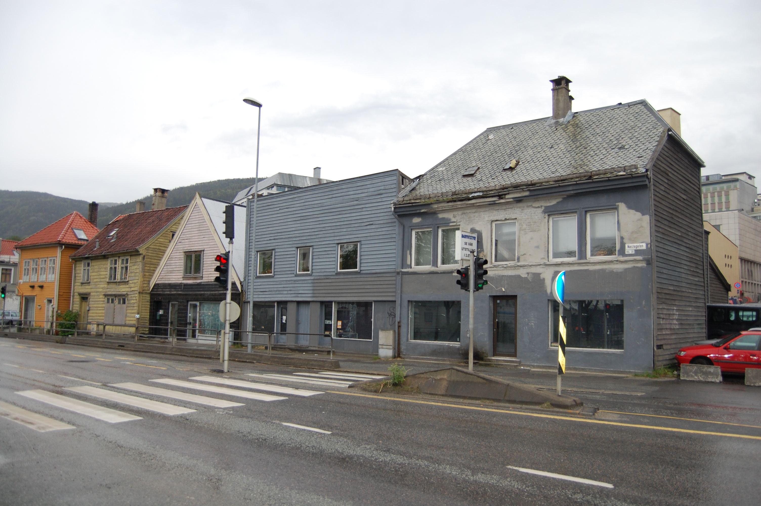 Nøstegaten, Bergen, Norway